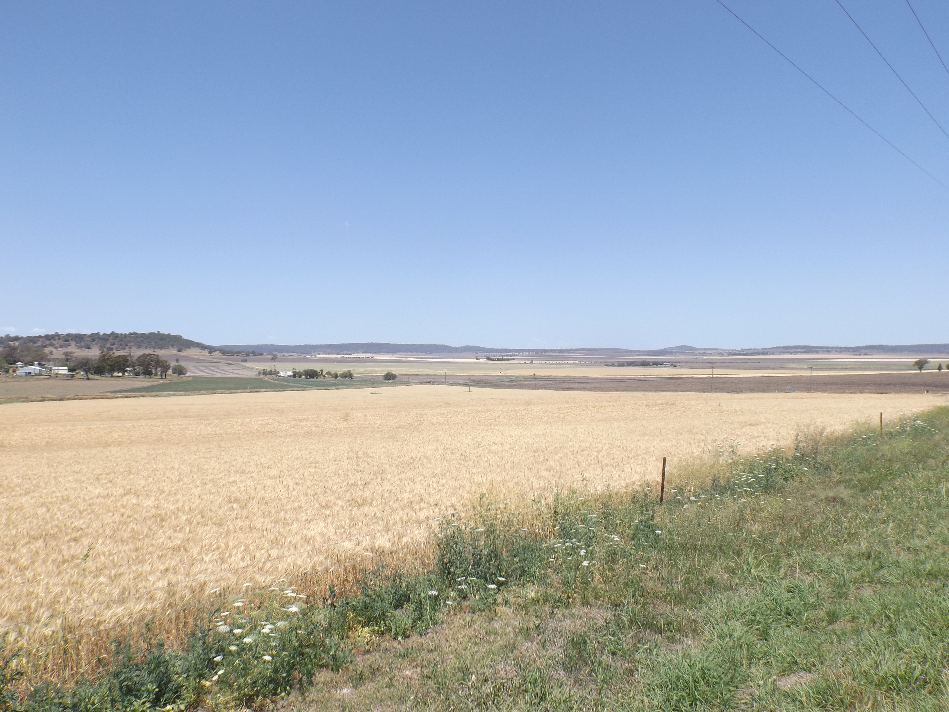 Photo of fields along Southbrook Road at Felton, Queensland, Australia.